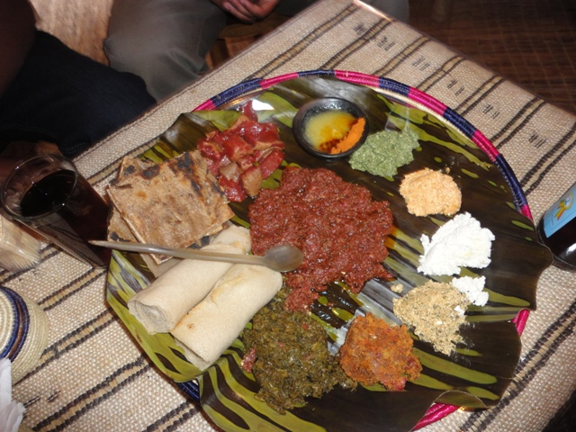 Kitfo consists of minced raw beef, marinated in mitmita (a chili powder based spice blend) and niter kibbeh (a clarified butter infused with herbs and spices). Kitfo is often served alongside—sometimes mixed with—a mild cheese called ayibe or cooked greens known as gomen. This is an image of food from Ethiopia